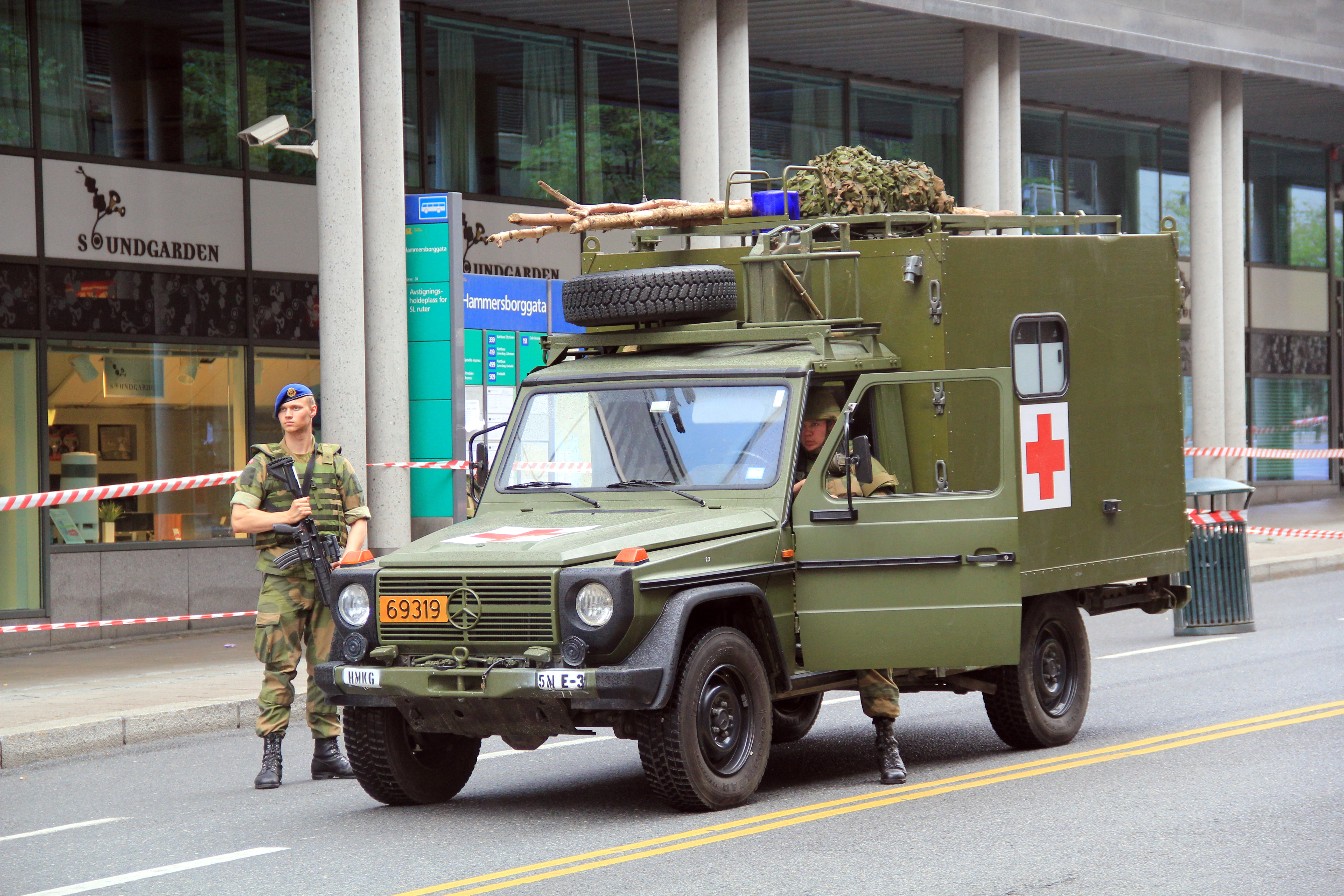 Military protecting the closed and protected parameters after the 2011 Oslo explosion at Hammersborggt Oslo